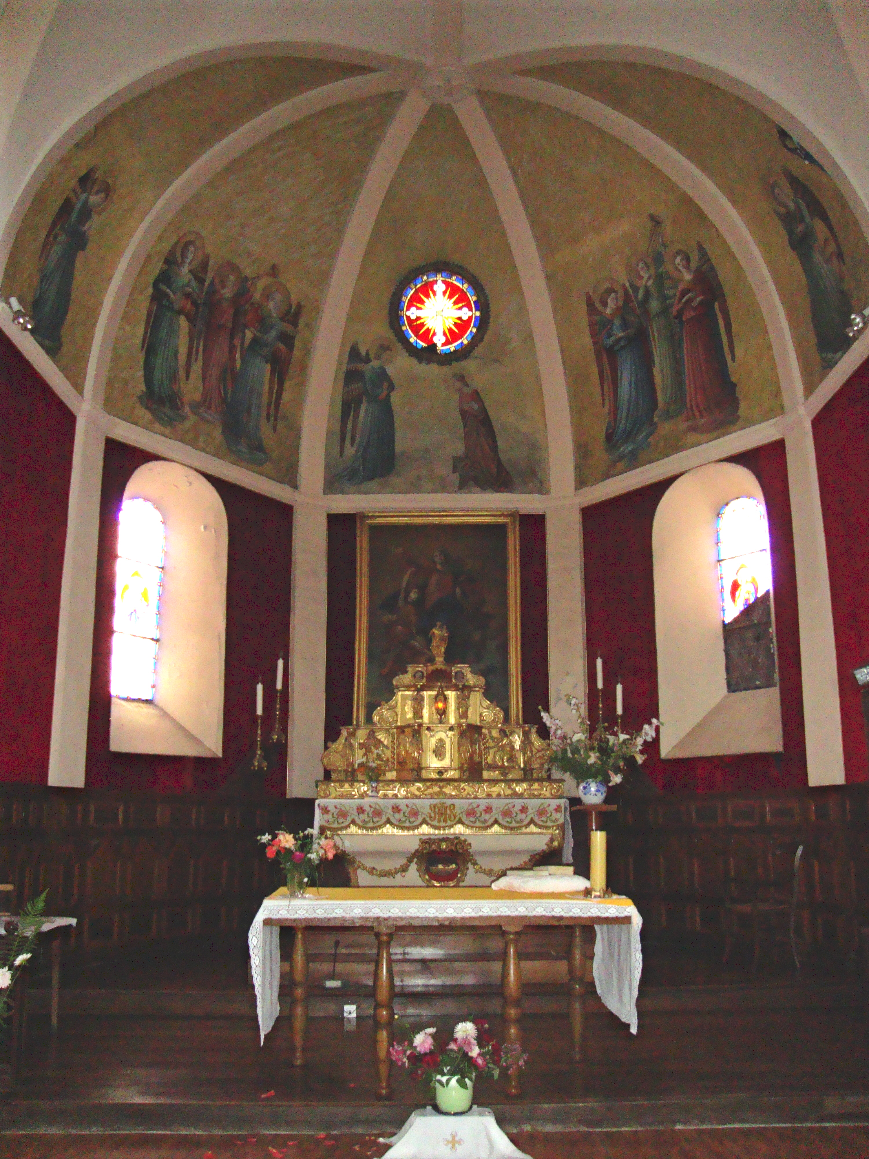 Menditte (Pyr-Atl, Fr) church choir